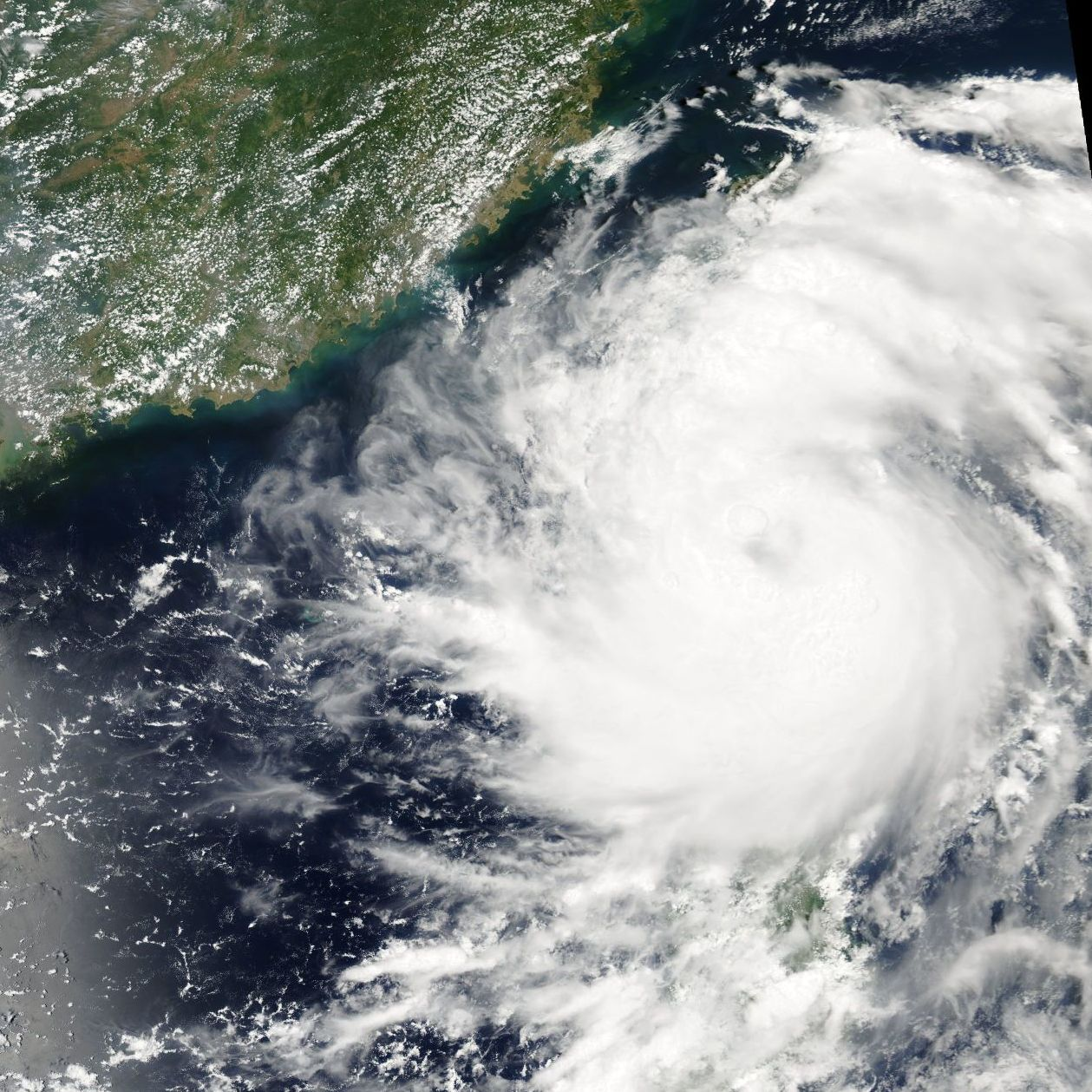 This image shows Typhoon Morakot on its way to Taiwan on 0540 UTC on August 03, 2003. The storm's maximum sustained wind speeds were at their peak of 65 knots.